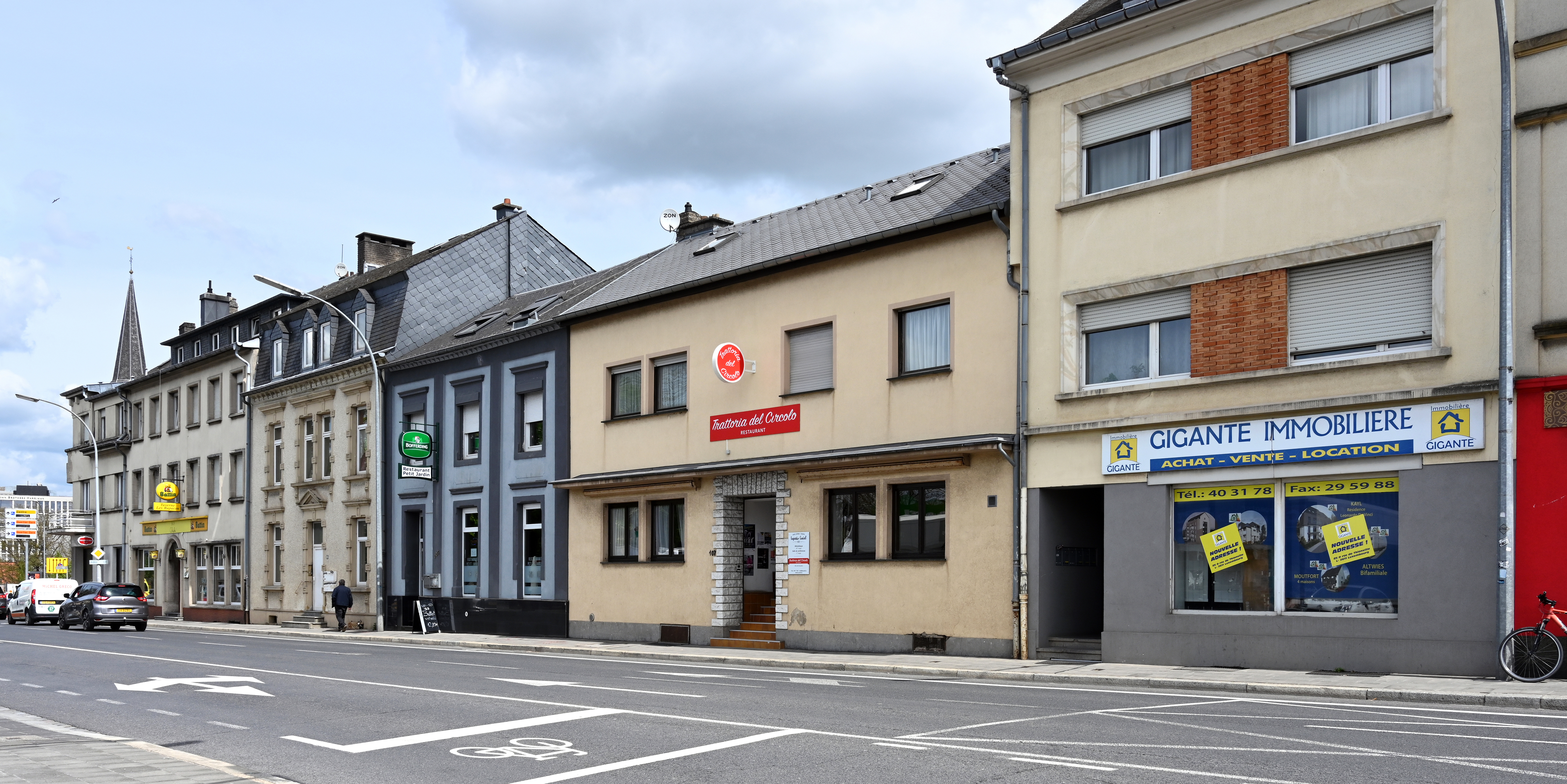 Luxembourg City, quarter of Hollerich: buildings in route d'Esch, with Trattoria del Circolo Eugenio Curiel. Upside left: the tower of the church in Hollerich.